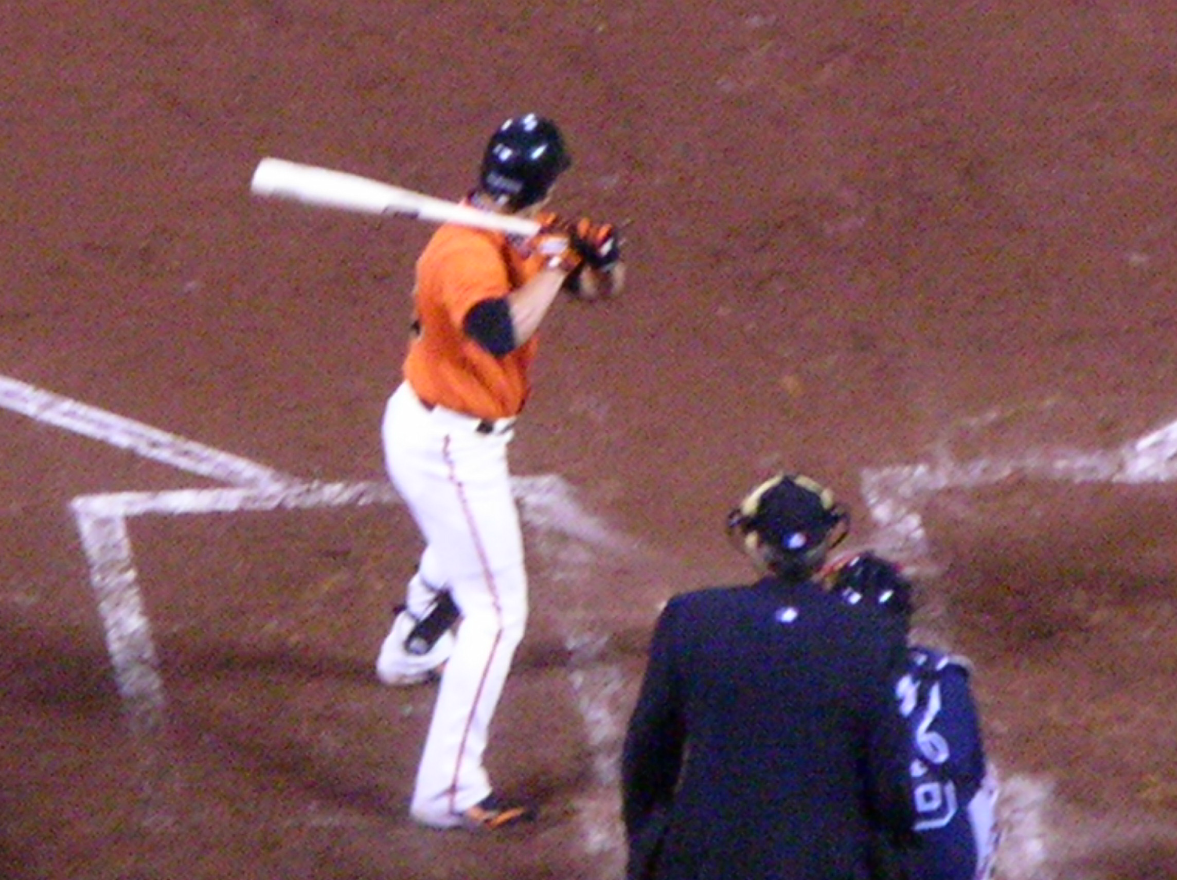 San Francisco Giants outfielder Andrés Torres at bat during Game 2 of the National League Division Series against the Atlanta Braves at AT&T Park. The Braves won 5-4 in extra innings. The Giants went on to win the series 3 games to 1.